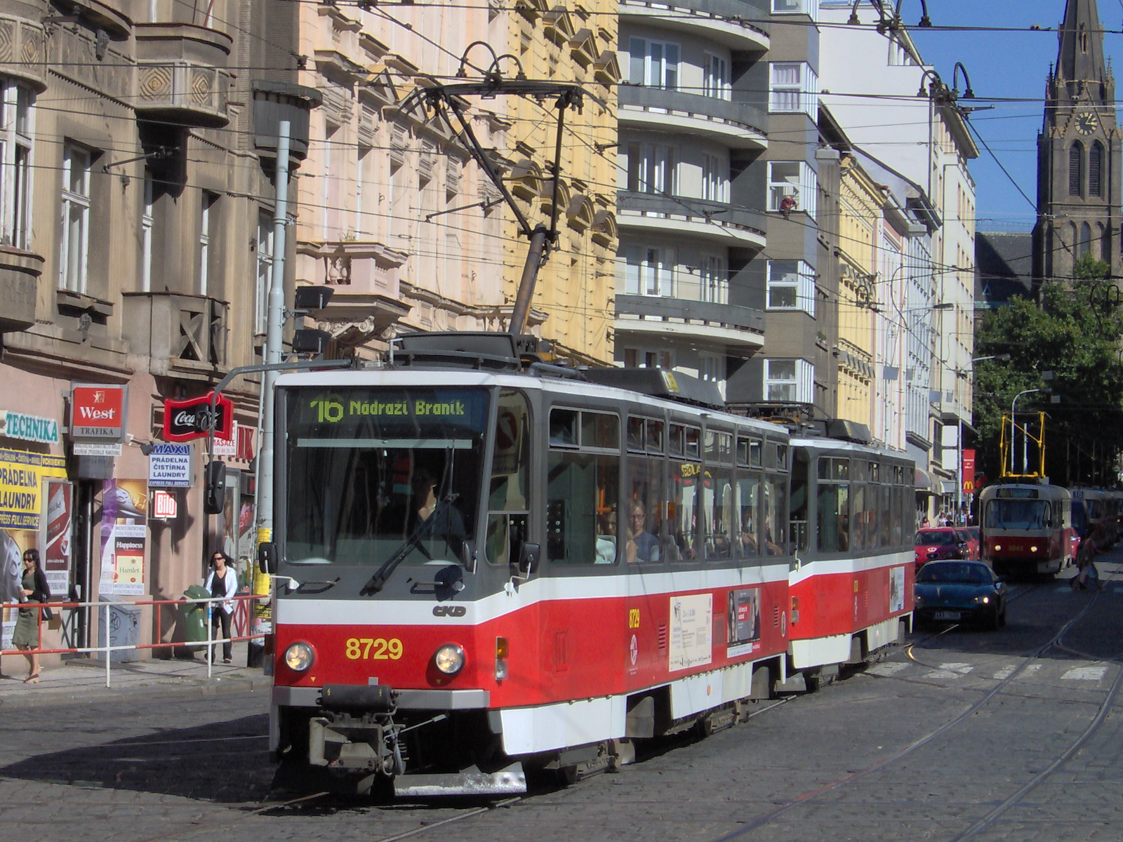 Tatra T6A5 trams in Prague, Czech Republic